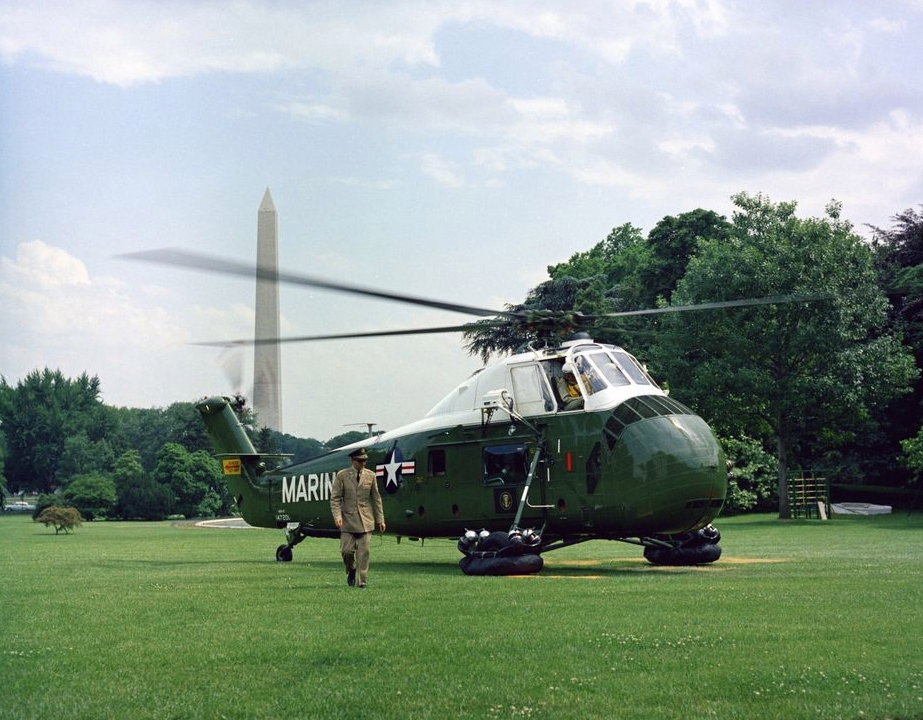 A U.S. Marine Corps Sikorsky VH-34D presidential helicopter (BuNo 147201) on the South Lawn of the White House en route to arrival ceremonies for Fulbert Youlou, President of the Republic of Congo at the Military Air Transport Service Terminal, Washington National Airport, Washington, D.C (USA). The Washington Monument is in the background.